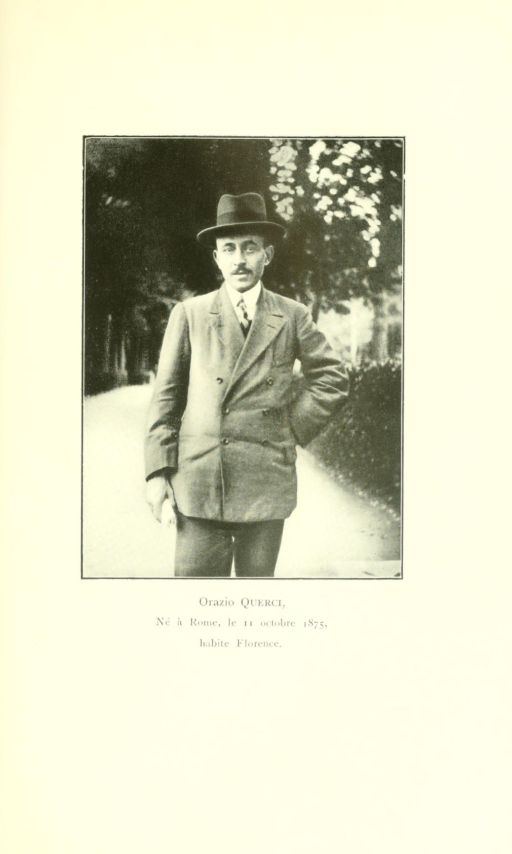 Oberthur 1916LepidopterologieComparie